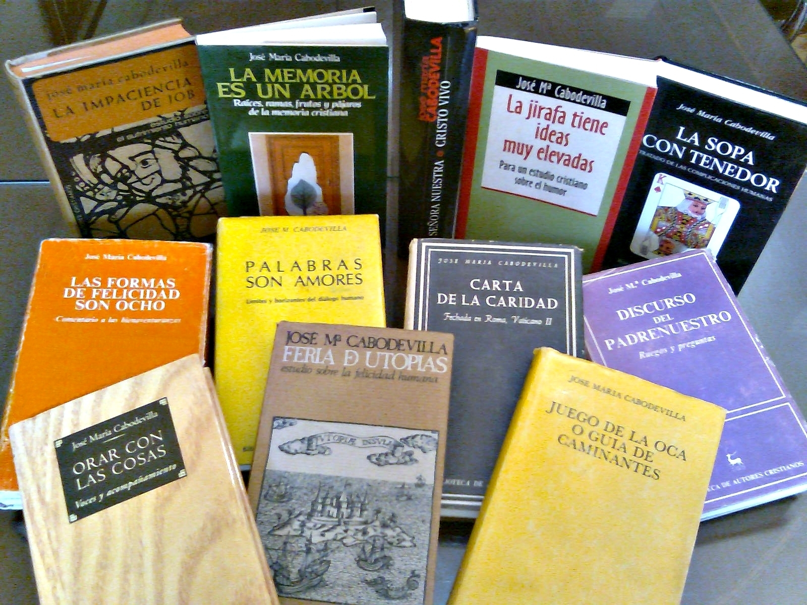 Books by José María Cabodevilla (1928-2003)